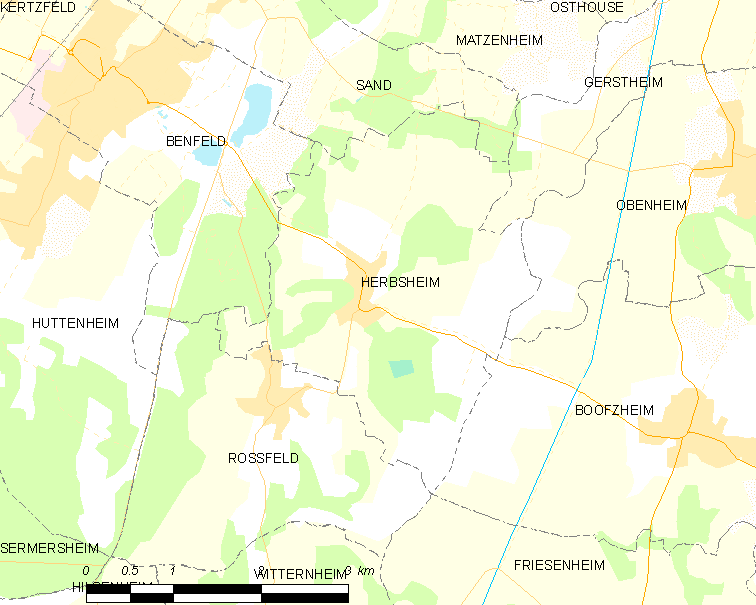 Map of French municipality